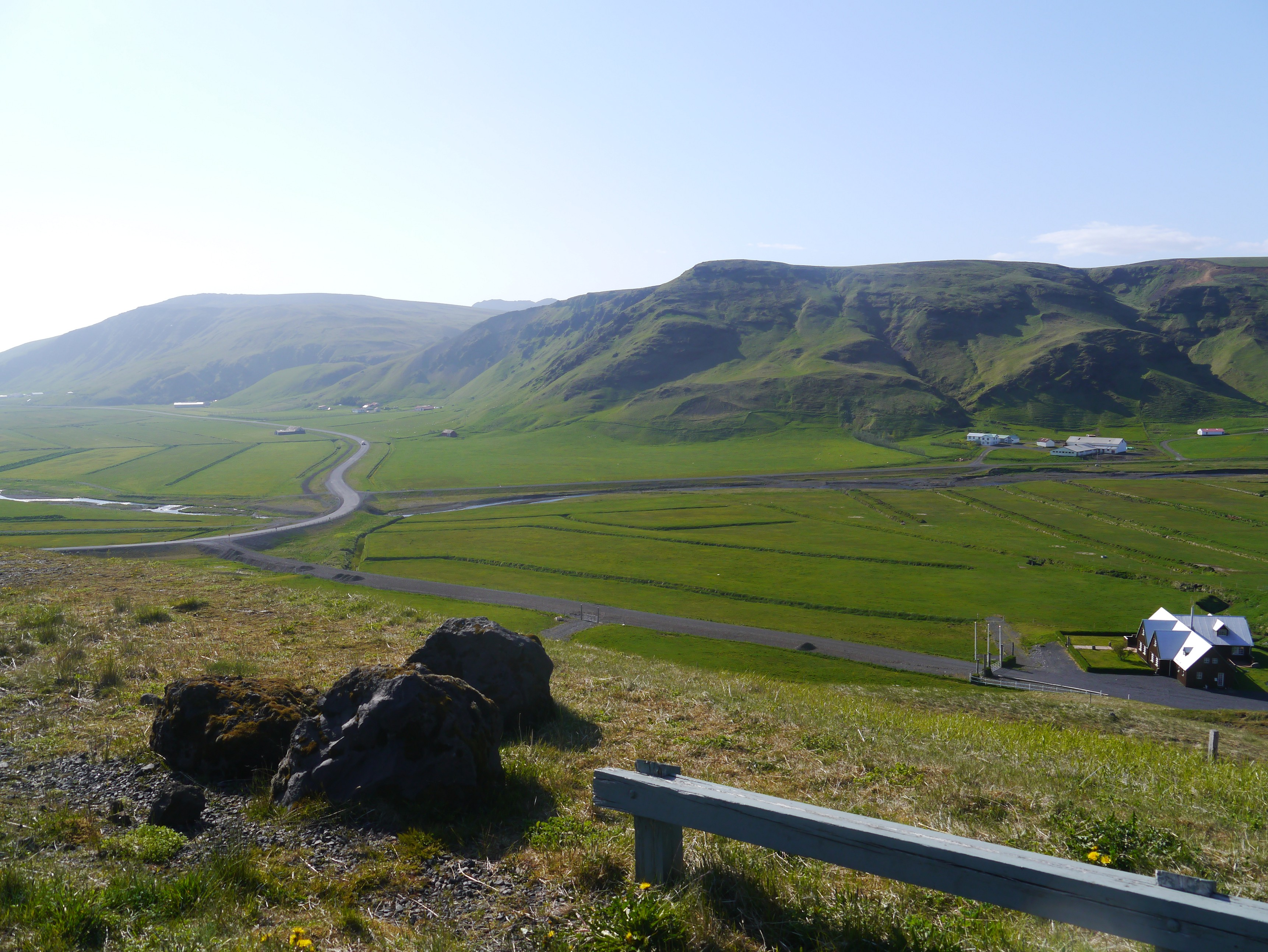 at the Icelandic Southern Coast